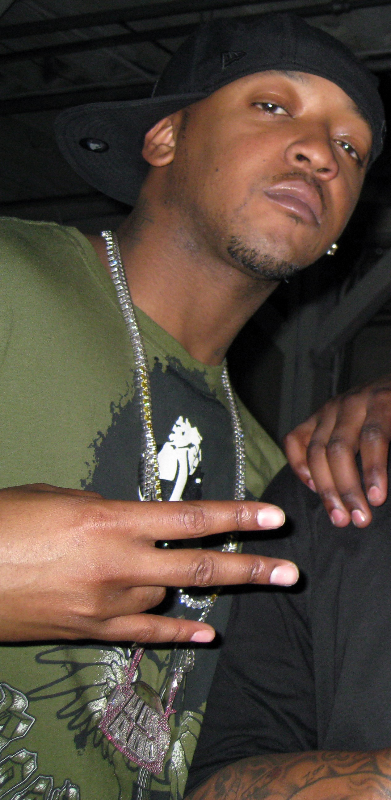 G-Unit at the Rider Pt. 2 video shoot.